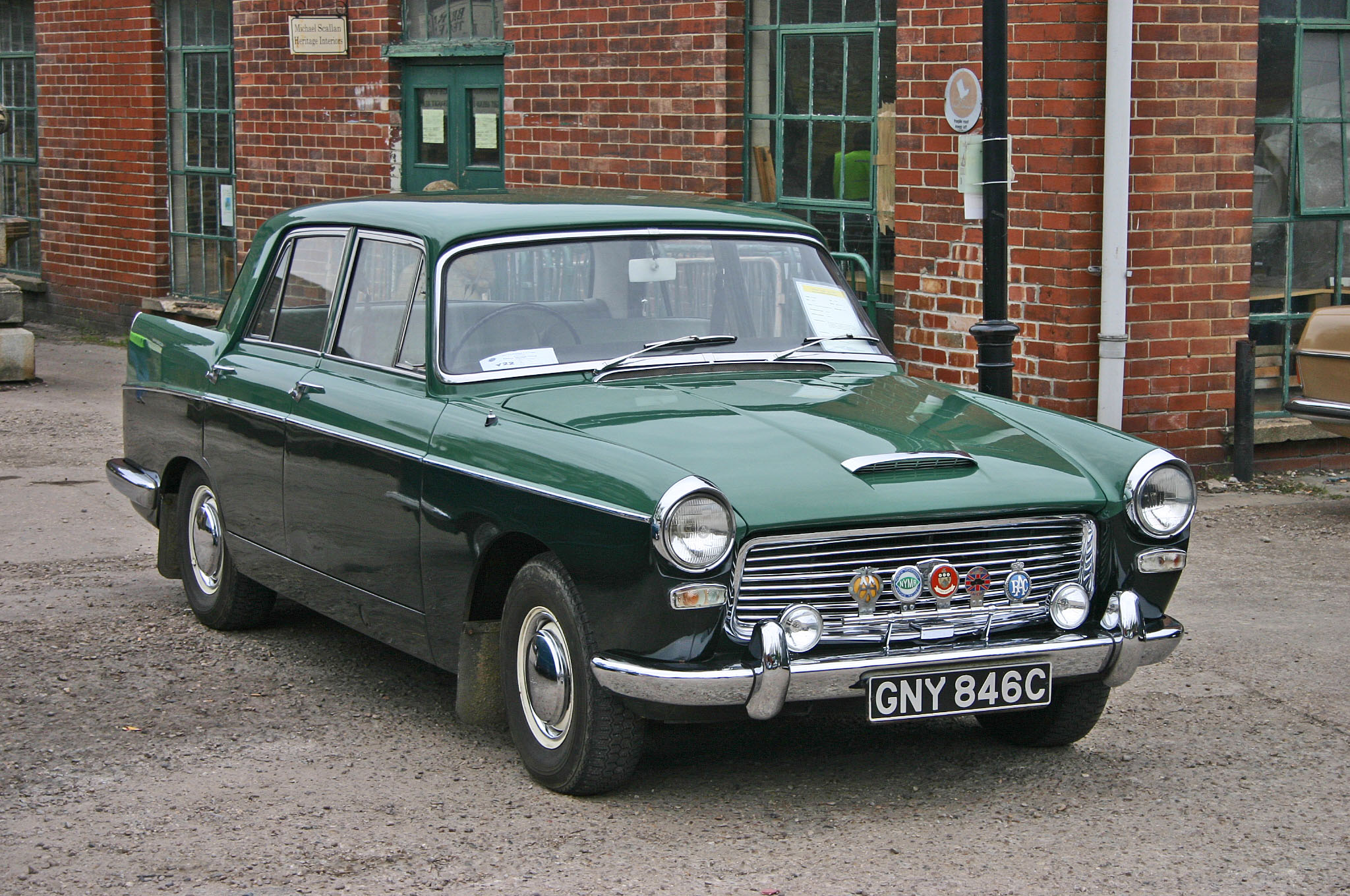 Austin A110 Westminster MkII